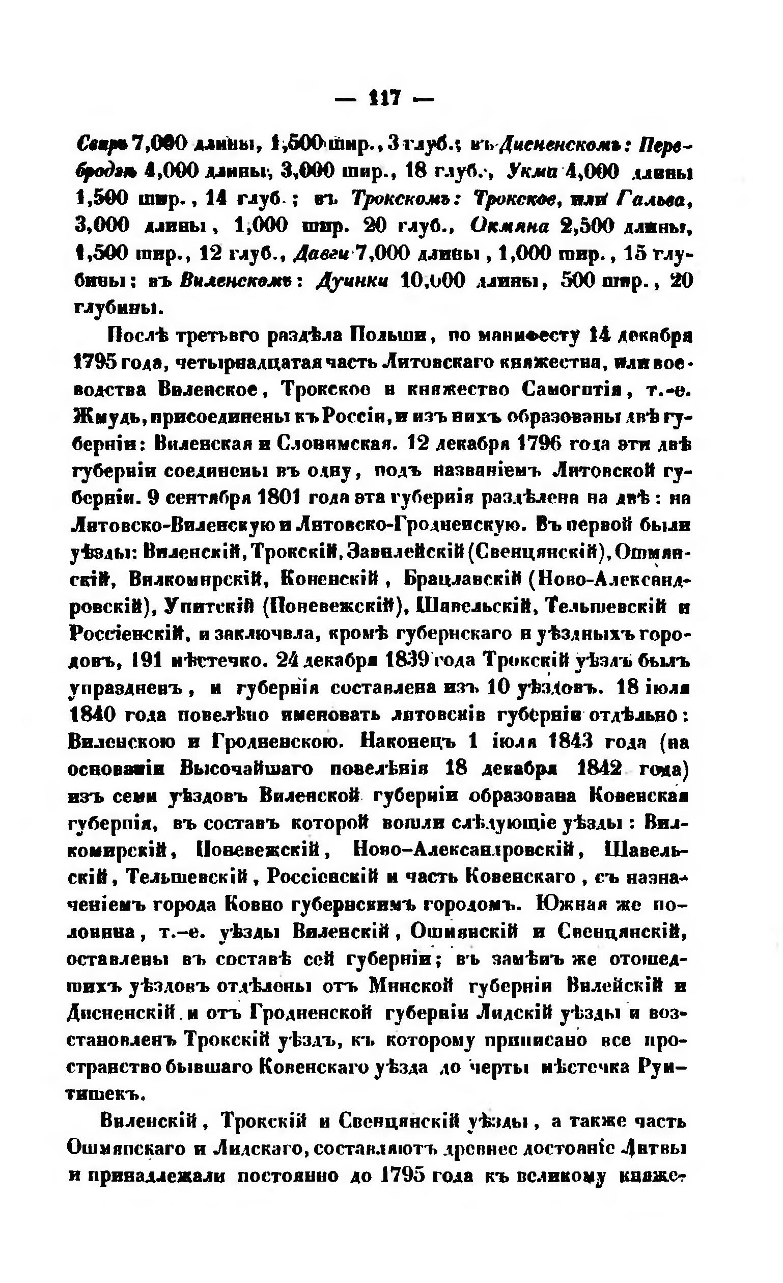 a page from the book "Этнографический сборник, издаваемый Императорским Русским географическим обществом". Вып. III. (1858)